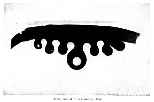 Photograph of the bronze mount Found at Braich-y-Dinas, originally published in Archaeologia Cambrensis, Journal of the Cambrian Archaeological Association: Vol. 89, p.208 (1934). The photo is credited to Mr W. Aspden. This version originates from a reproduction of the journal, kindly digitised and placed in the public domain by Llyfrgell Genedlaethol Cymru – The National Library of Wales.